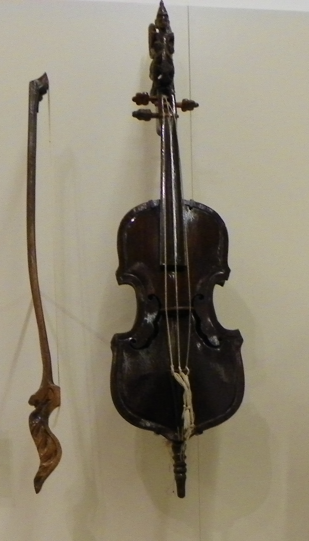 Photograph of musical instrument(s) taken at the Musical Instrument Museum (Phoenix) on 2011-04-26. Tayaw (fiddle) Burma Displayed with bow.